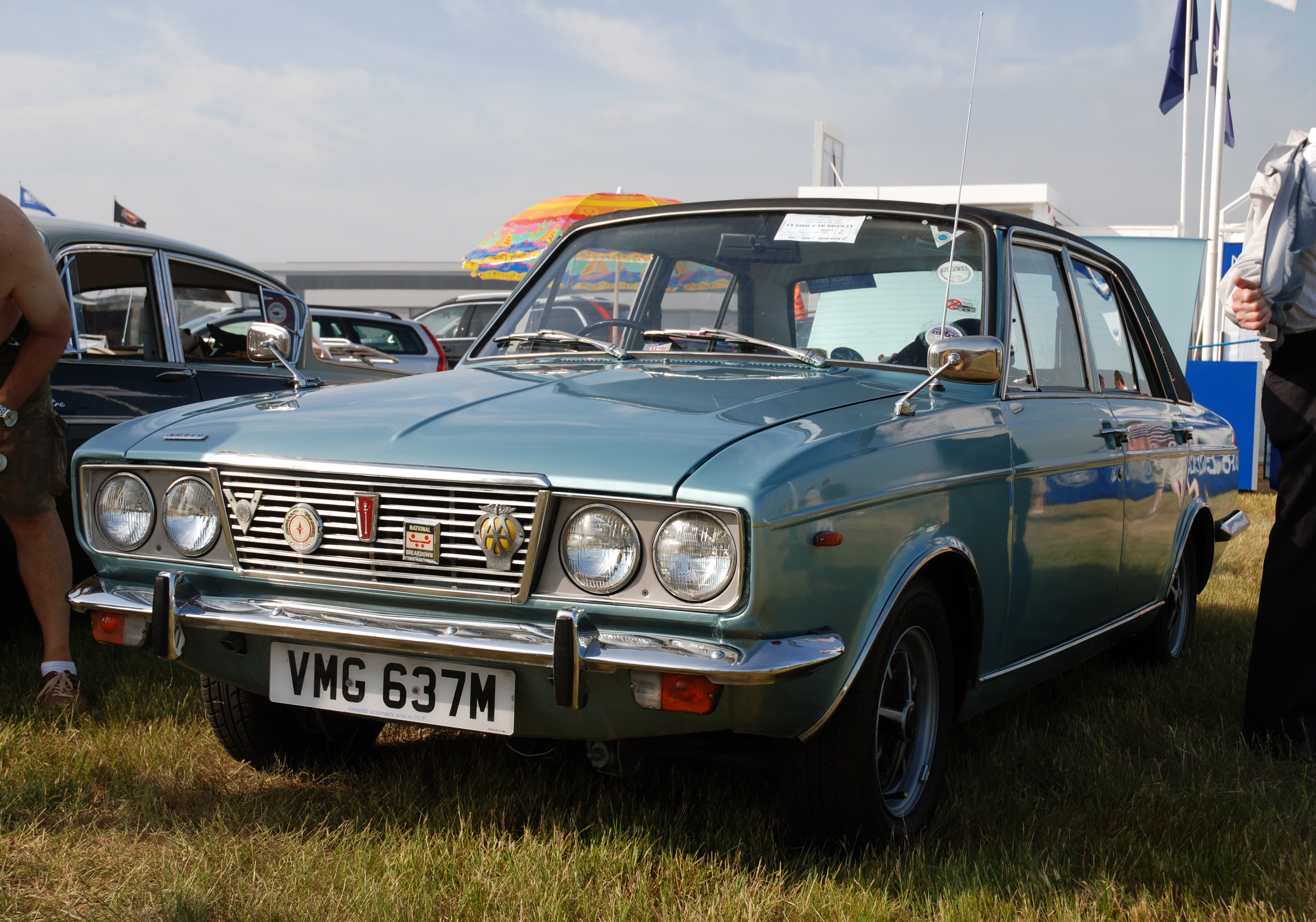 Biggin Hill Air Show,June 2009